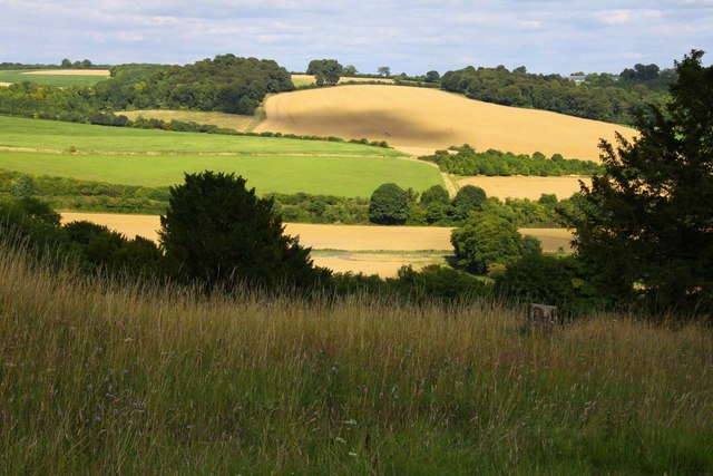 Looking across the Chilterns